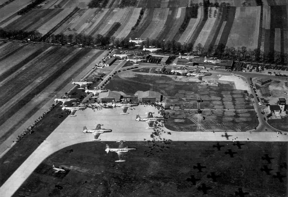 Twelve U.S. Air Force Lockheed RF-80A Shooting Star reconnaissance aircraft of the 10th Tactical Reconnaissance Wing fly over Trier Air Base, Germany, on the 3rd anniversary of the establishment of the 4th Allied Tactical Air Force (ATAF), which was headquartered in Trier until it was moved to Ramstein Air Base in 1957.